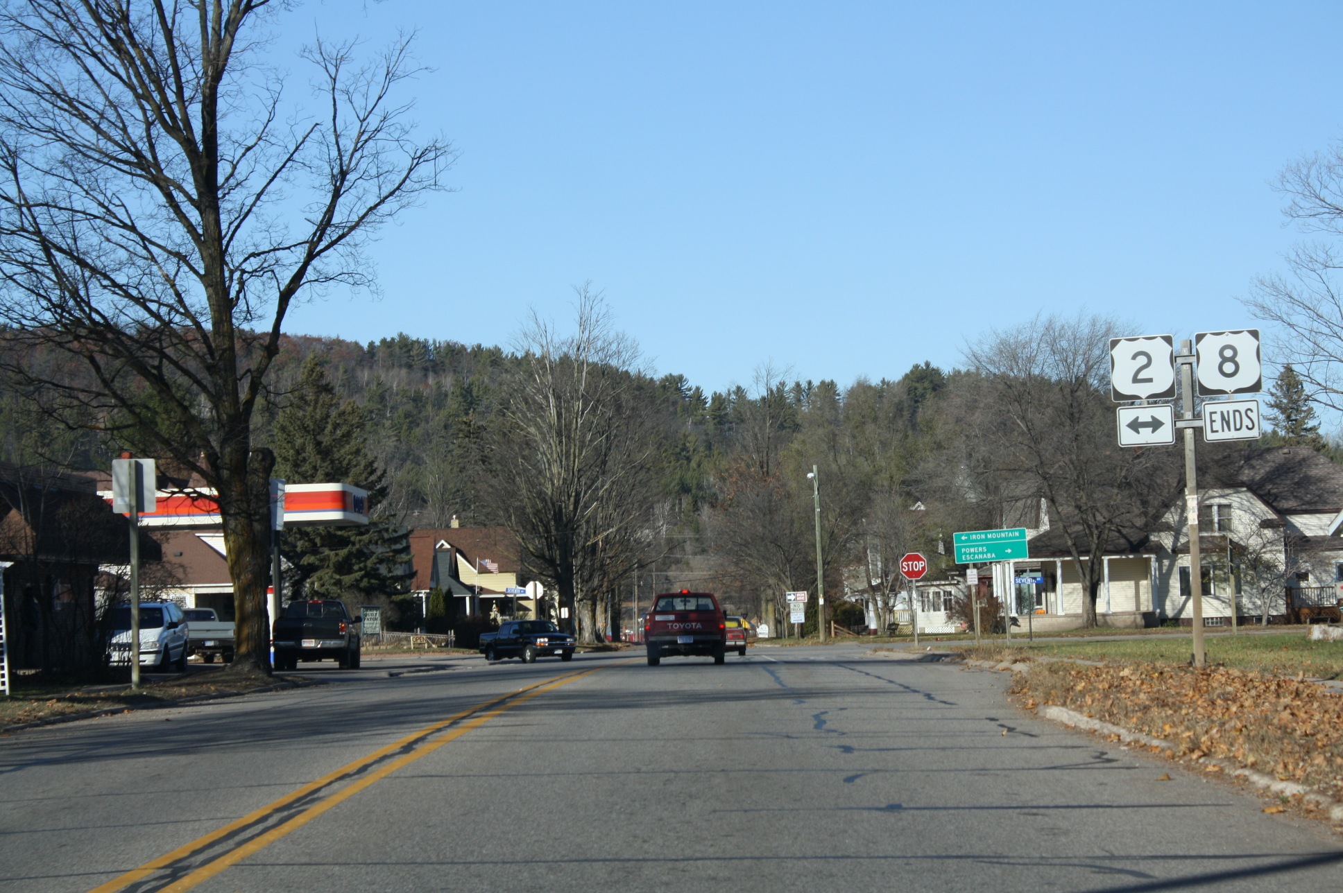 Looking north at the east terminus of U.S. Route 8 in Norway, Michigan.